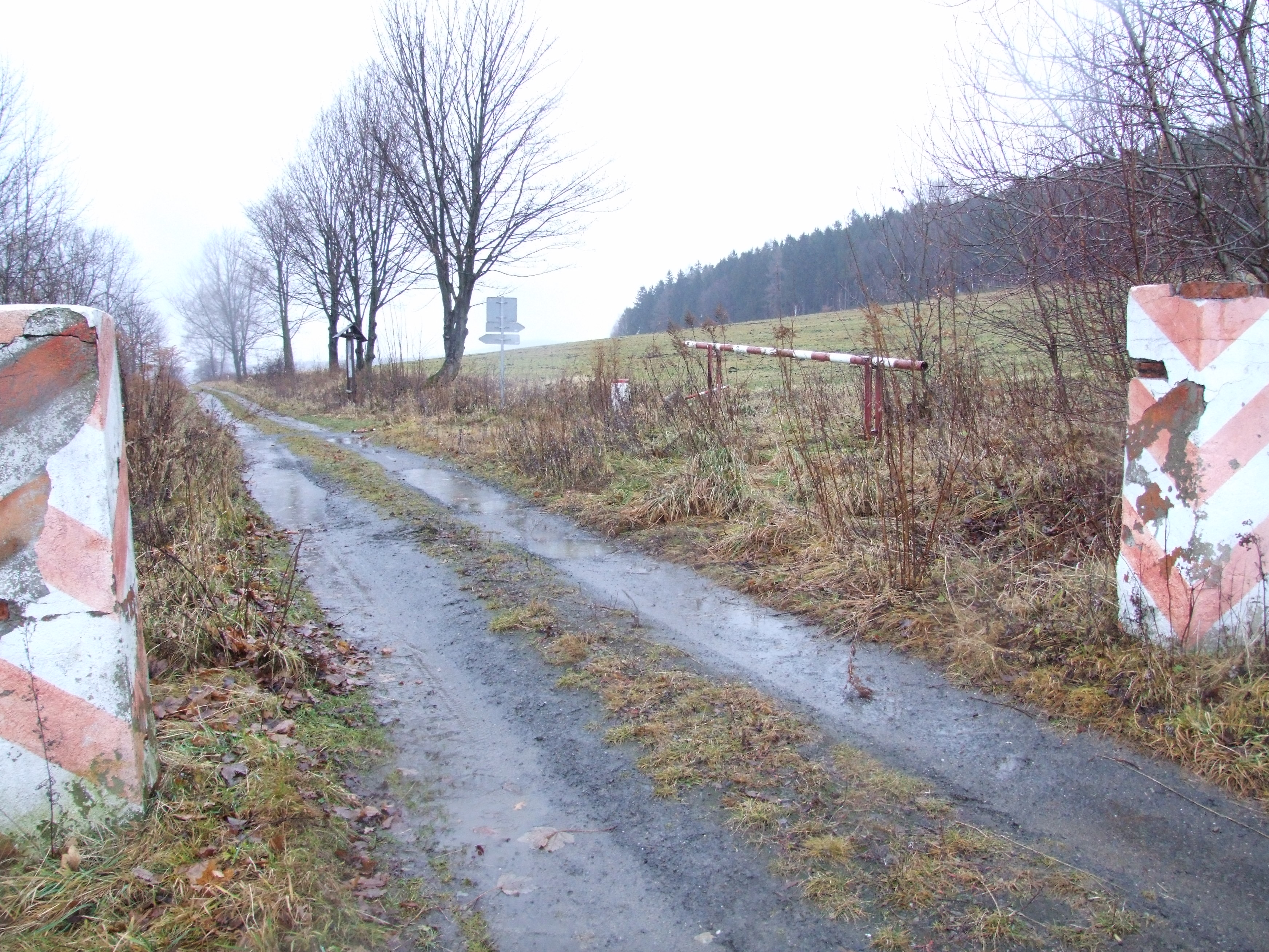 Świecie–Jindřichovice pod Smrkem border crossing